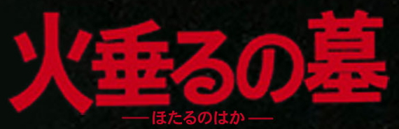 Hotaru no haka (Grave of the Fireflies) title, from Japanese DVD disc. Note the clarifying "subtitle" with the text in Hiragana.